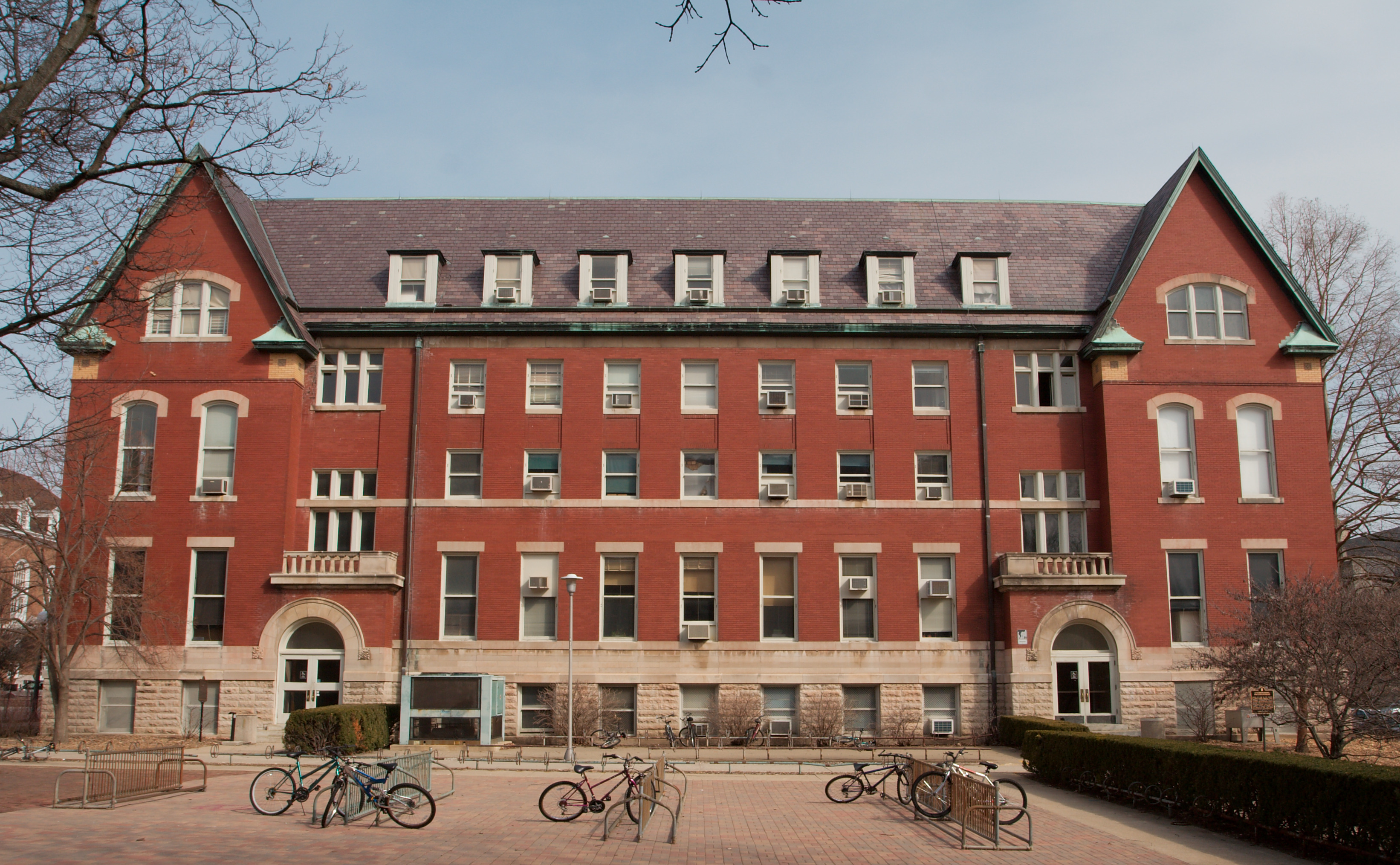 Urbana, IL Natural History Building ** (added 1986 - Building - #86003147) 1301 W. Green St., Urbana Historic Significance: Person, Event, Architecture/Engineering Architect, builder, or engineer: Et al., Ricker,Nathan Clifford Architectural Style: Gothic, Other Historic Person: Ricker,Nathan Clifford Significant Year: 1909, 1923, 1893 Area of Significance: Architecture, Education Period of Significance: 1875-1899, 1900-1924 Owner: State Historic Function: Education Historic Sub-function: College Current Function: Education Current Sub-function: College